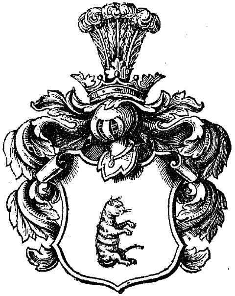 Coat of arms Nałęcz from Herbarz polski by Kacper Niesiecki